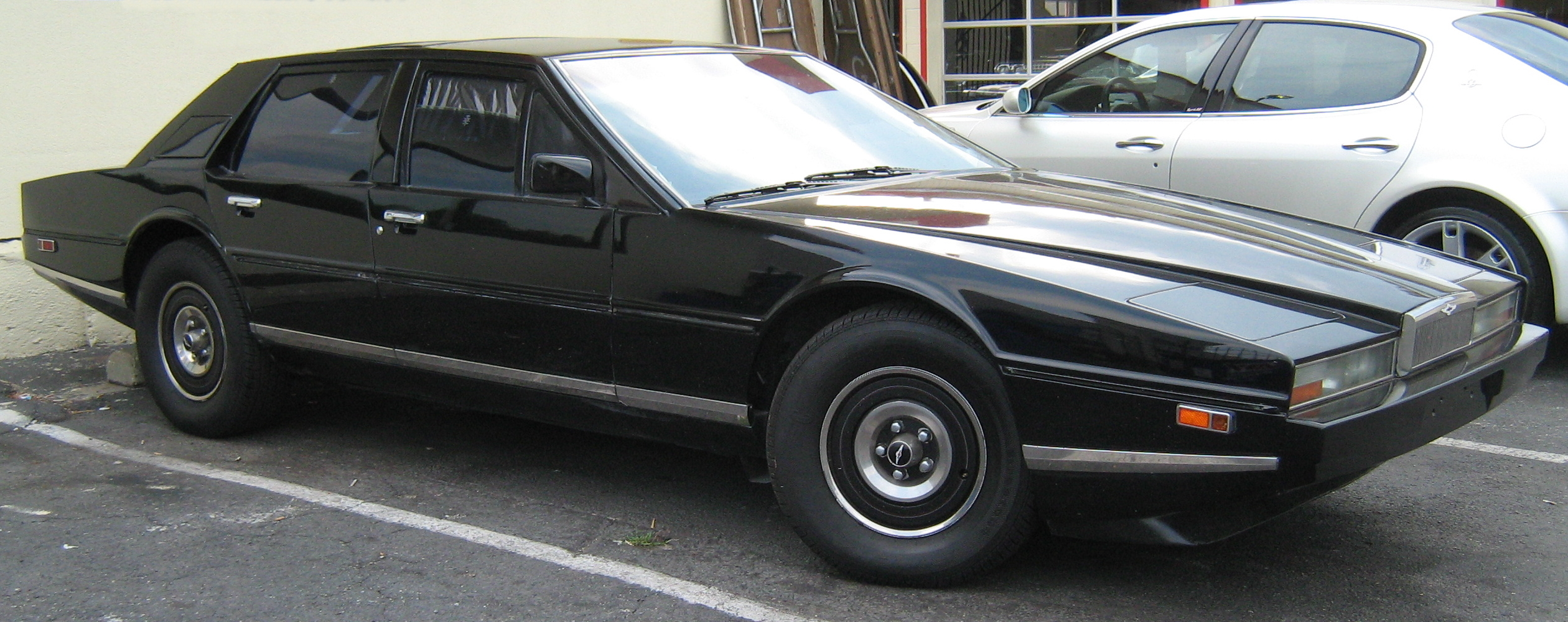 Aston Martin Lagonda (first series) with pop-up headlamps